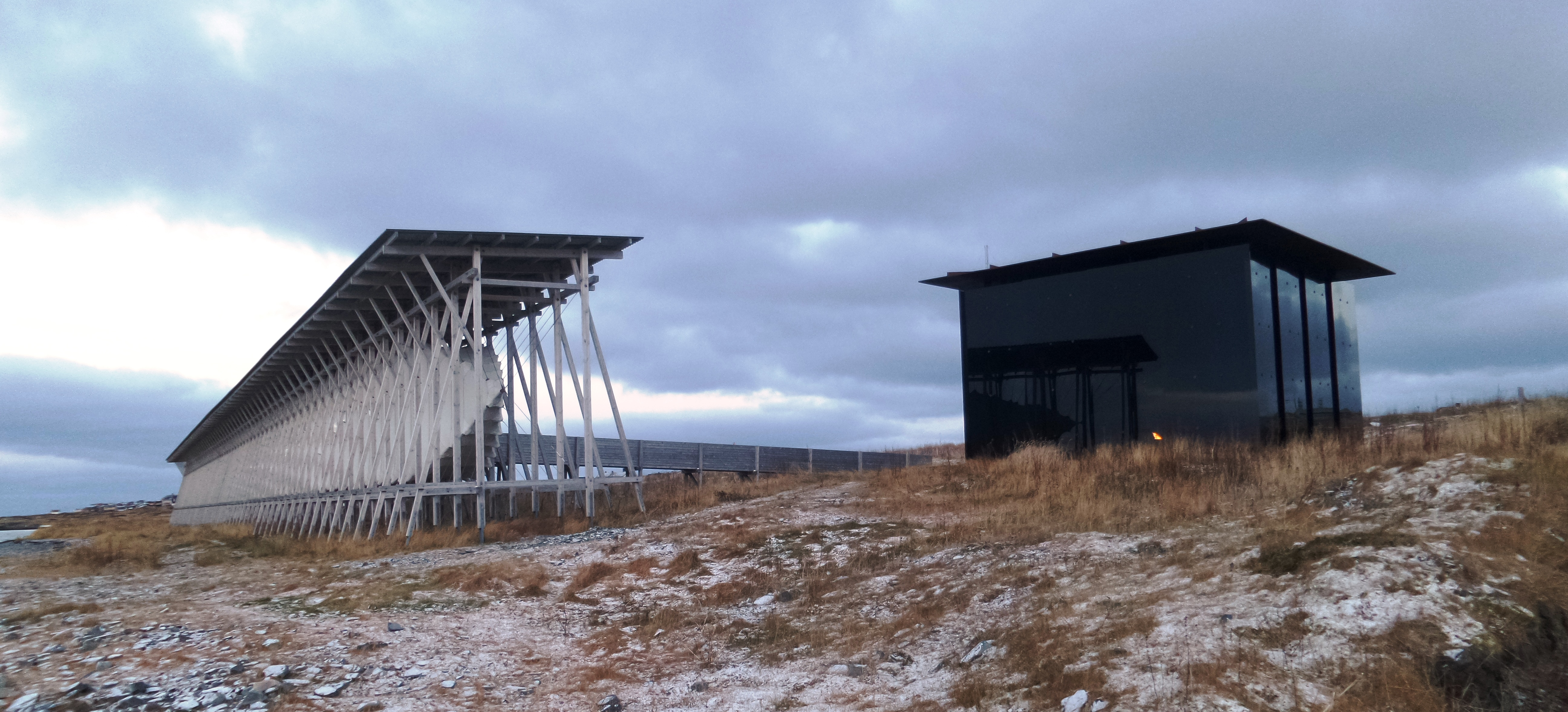 The witchcraft trials memorials at Steilneset in Vardø, Finnmark, Norway